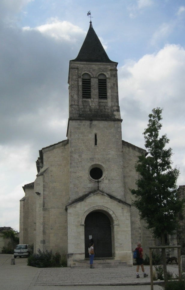 Flaugnac (Lot - France)) : Picture in front of the church